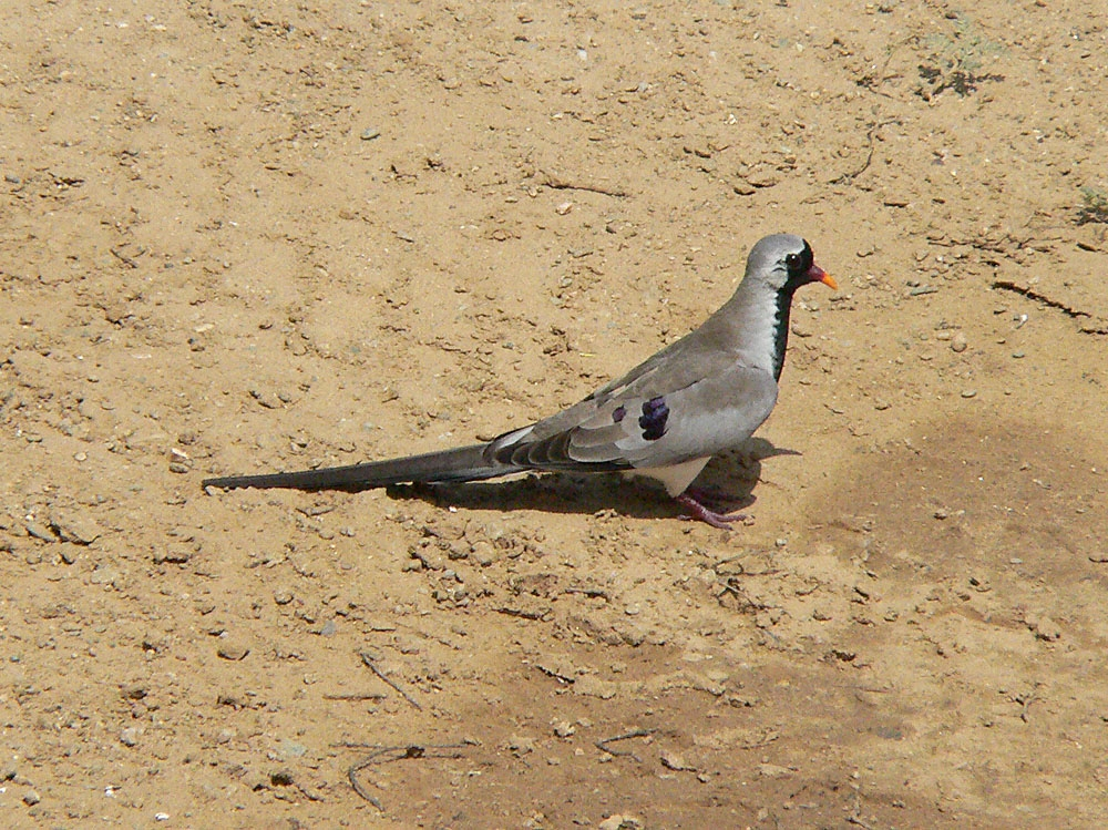 Male Namaqua dove photographed near Aiterba, Red Sea State, Sudan